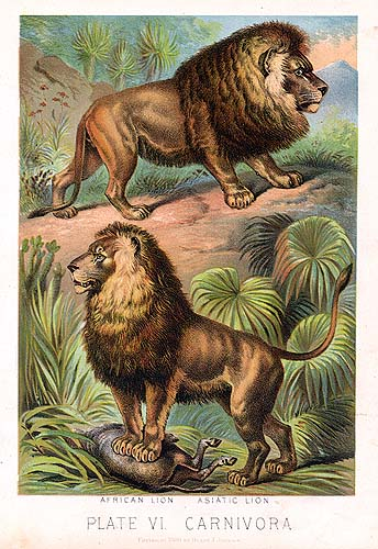 African (above) and Asiatic (below) lions, as illustrated in Johnsons Household Book of Nature